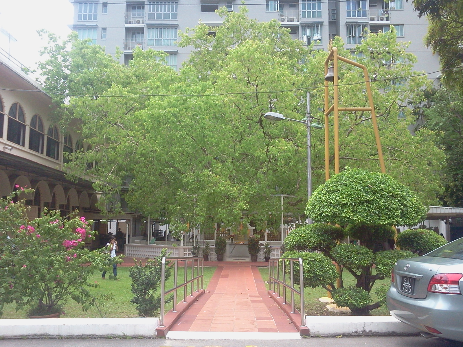 The Bodhi Tree (Ficus religiosa) at Sri Lankaramaya Buddhist Temple in Singapore.